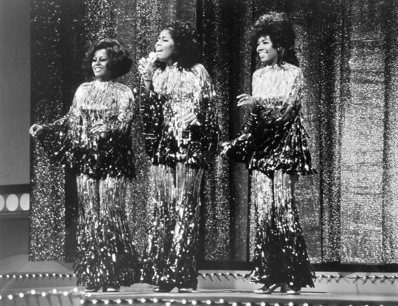 Photo of The Supremes from an appearance on a Smokey Robinson television special, aired 12/18/70. L-R: Cindy Birdsong, Jean Terrell, and Mary Wilson.